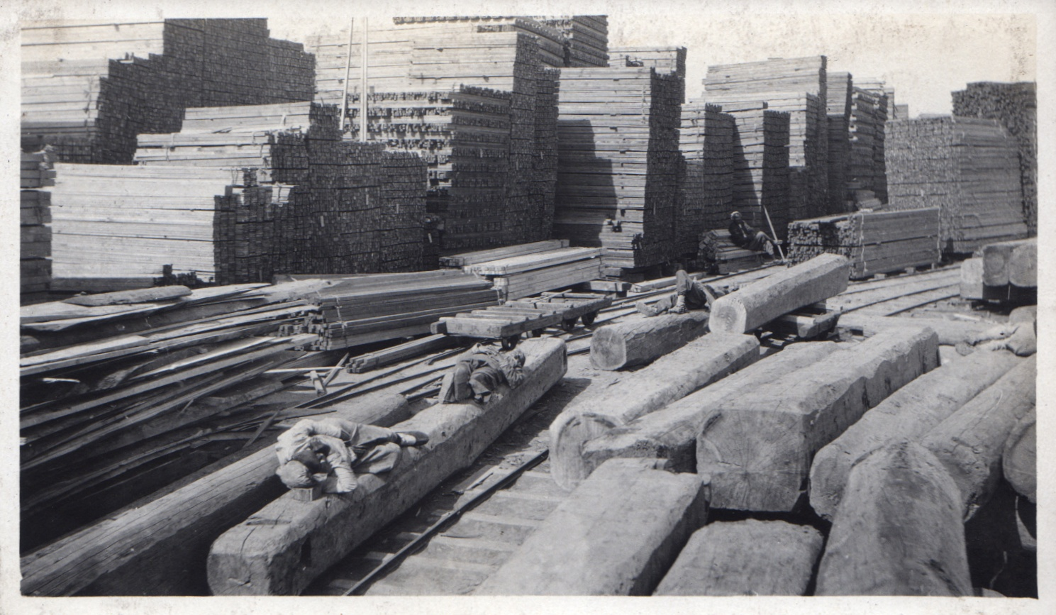 This photo is in an album my spouse's uncle Elstner Hilton compiled when he lived in Japan from 1914 to 1918. While most of the photos were taken in Japan, some were not. This photo is one example. I believe this photo was taken at a sawmill in Korea. I titled the photo "Break Time" because the men are reclining on the timbers.